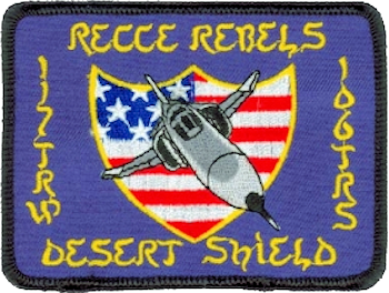 117th Tactical Reconnaissance Wing/106th Tactical Reconnaissance Squadron - Desert Shield Emblem.